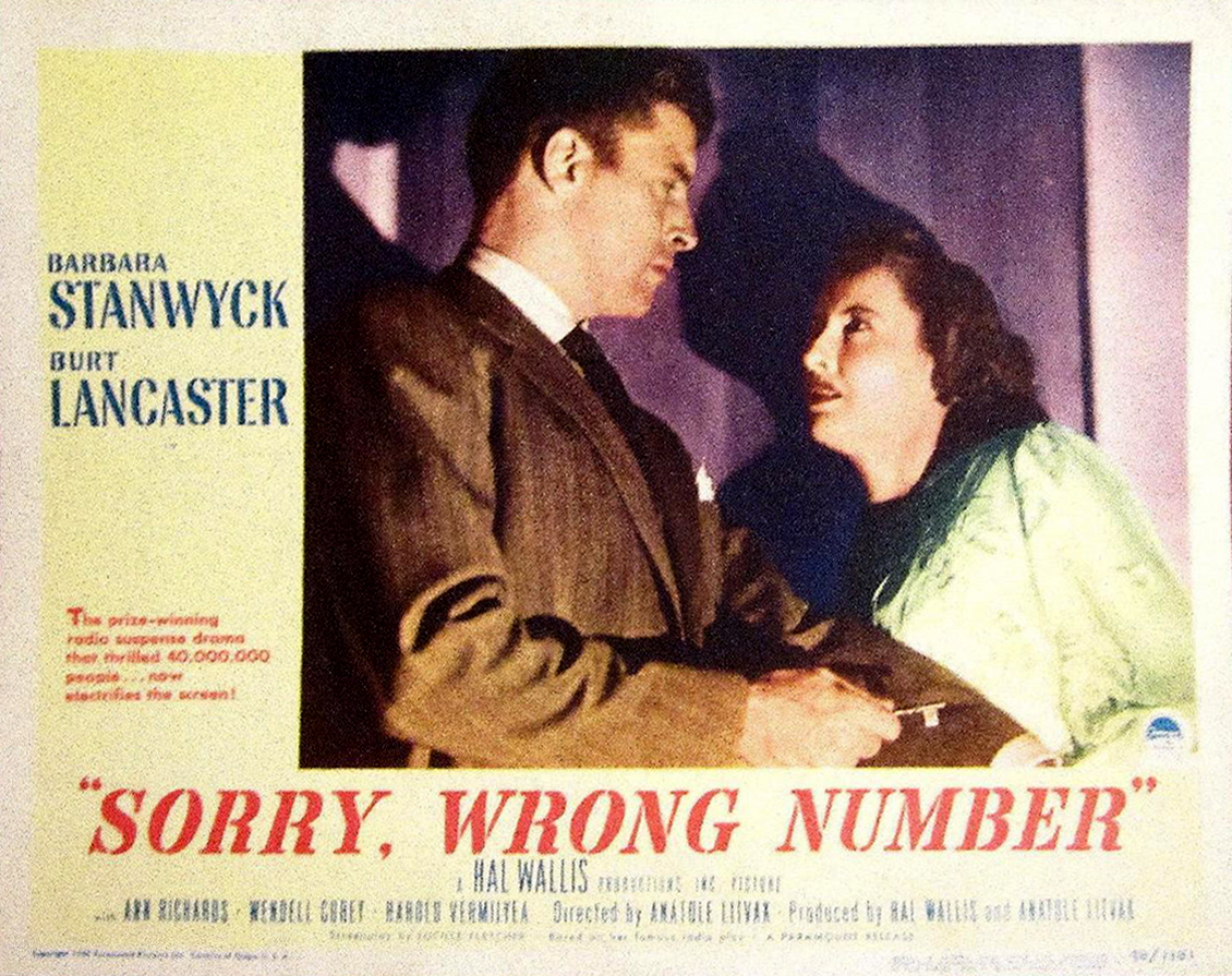 Low-resolution image of lobby card for the American film Sorry, Wrong Number (1948), featuring stars Burt Lancaster and Barbara Stanwyck.